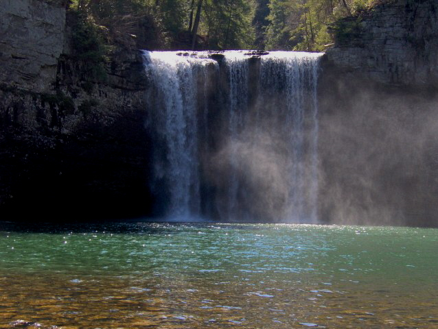 Cane Creek Falls at Fall Creek Falls State Park, located in the Southeastern United States. This view from the base of the gorge is accessible via the Cable Trail.